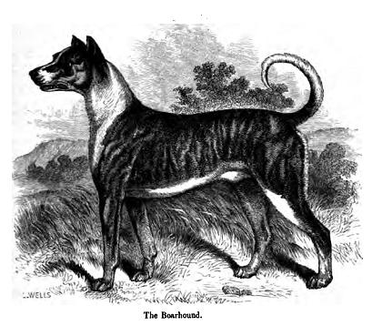 Boarhound aka Great Dane